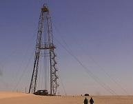 An oil rig in northern Niger